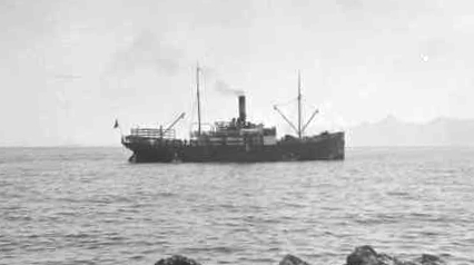 Norwegian passenger- and cargo-ship DS Andenæs, built in 1903. This ship was also employed as relief-ship in the Norwegian coastal express service (Hurtigruten). Photo is taken near Andøya. Norsk (bokmål): Passasjer- og lasteskipet DS «Andenæs» fra Vesteraalen Dampskibsselskab (VDS). Skipet ble bygd i 1903, og ble ved flere anledninger benyttet som avløserskip i hurtigruten. Bildet er tatt nær Andøya.